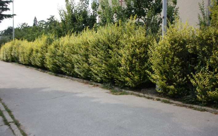 Brno-Komín,Ligustrum ovalifolium, Aureum